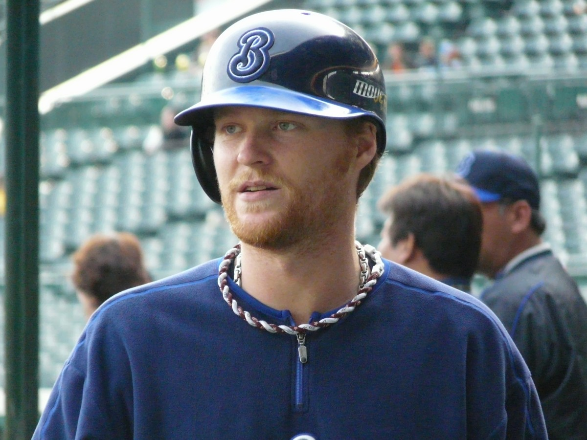 Dan Johnson, infielder of the Yokohama BayStars, at Hanshin Koshien Stadium.